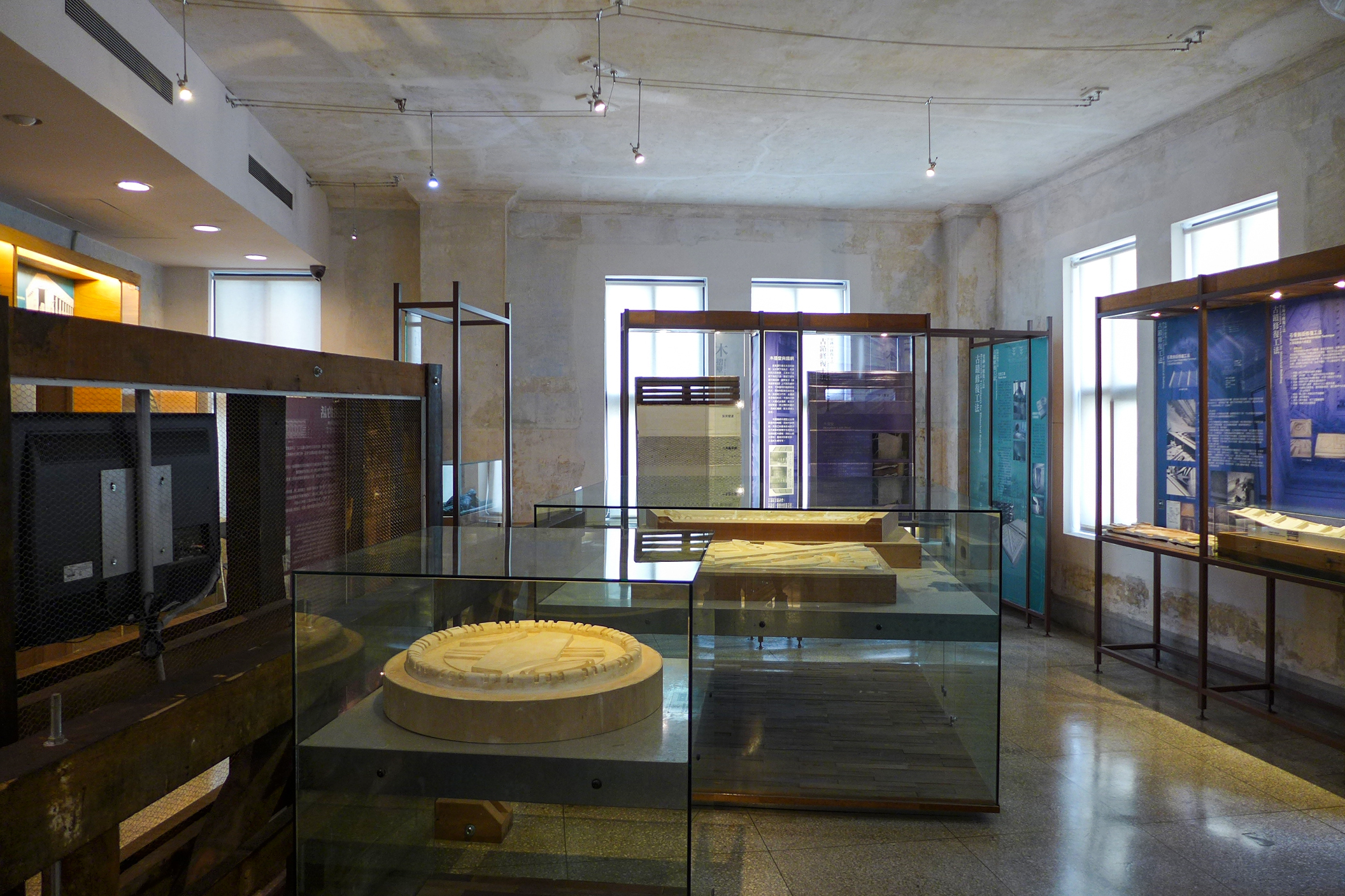 Historical Museum of the Land Bank of Taiwan Bank Vault